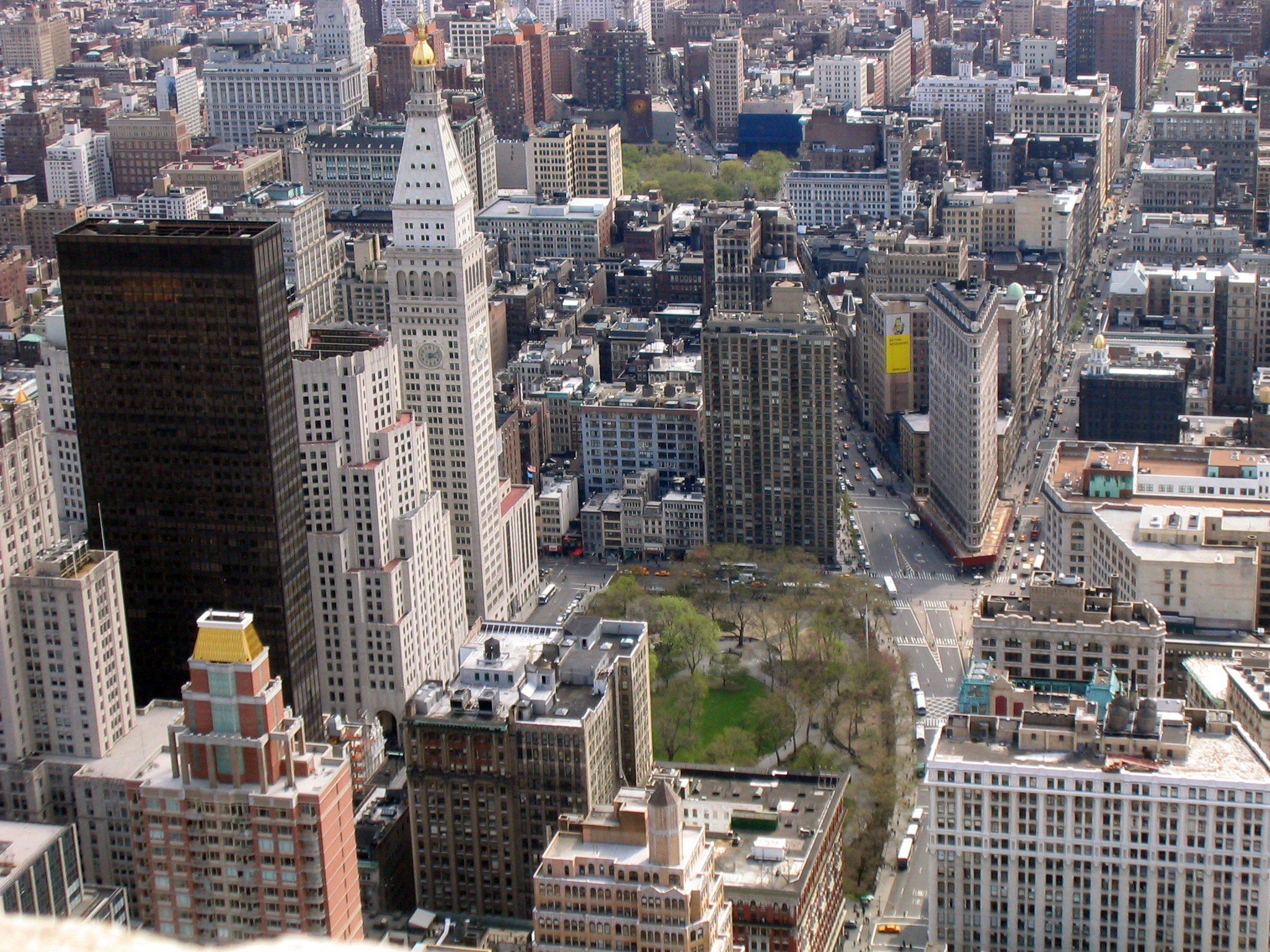 Broadway on the left of the Flatiron building and Fifth Avenue on the right.